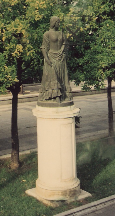 statue of carmen, seville, spain